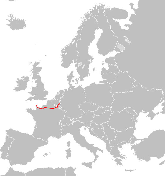 The European route 46